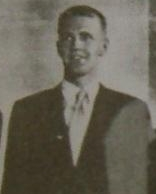 Jon Henricks. From a picture of young Australian sports stars profiled. It was published in the "Simmo" book of Bob Simpson, printed in an Australian magazine in 1953